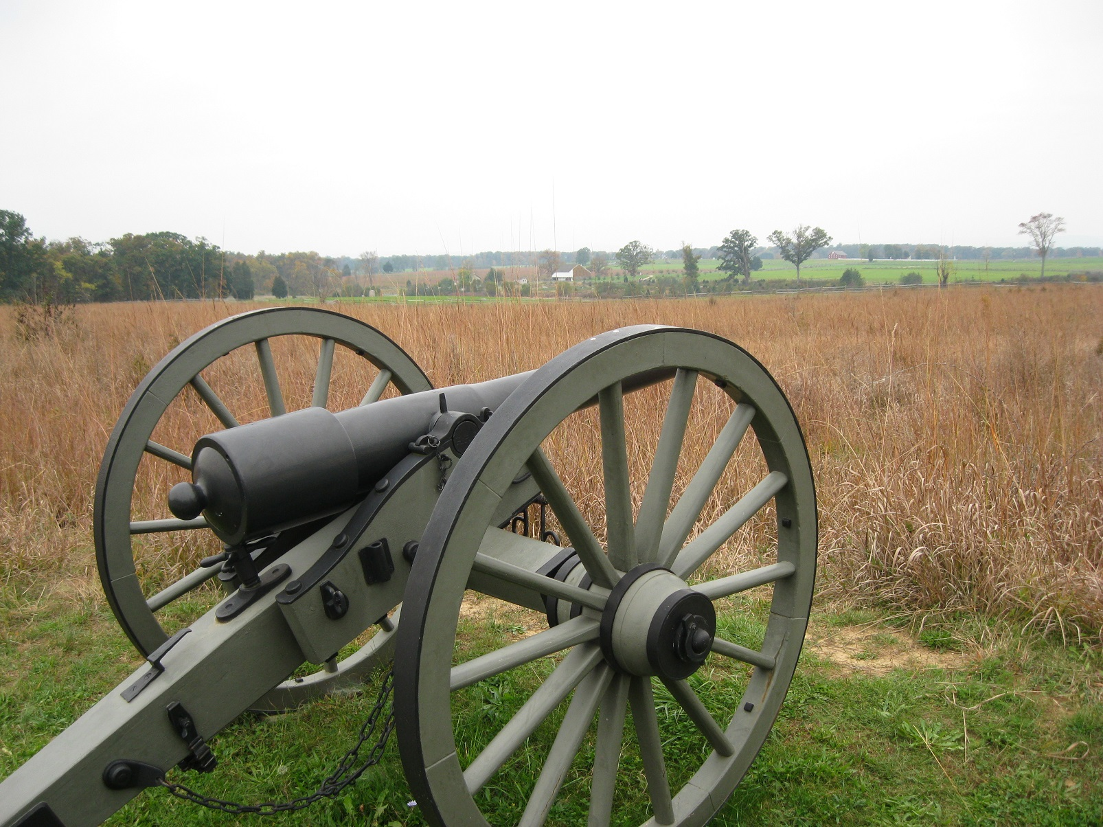 Photo shows a 10-pounder Parrott rifled gun with a rural backdrop. The location is on Hancock Avenue across the road from the New York State Auxillary Monument at Gettysburg National Military Park, Gettysburg, PA. View is toward the southwest.